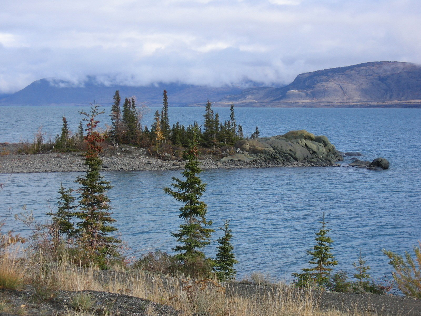 Kluane Lake, Yukon Territory, Canada. Taken from northbound Highway 1 (Alaska Highway).